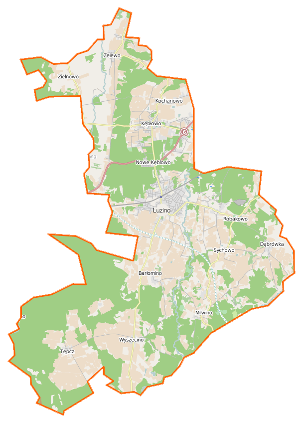 Map of Gmina Luzino, Poland This map of Luzino (gmina) was created from OpenStreetMap project data, collected by the community. This map may be incomplete, and may contain errors. Don't rely solely on it for navigation.